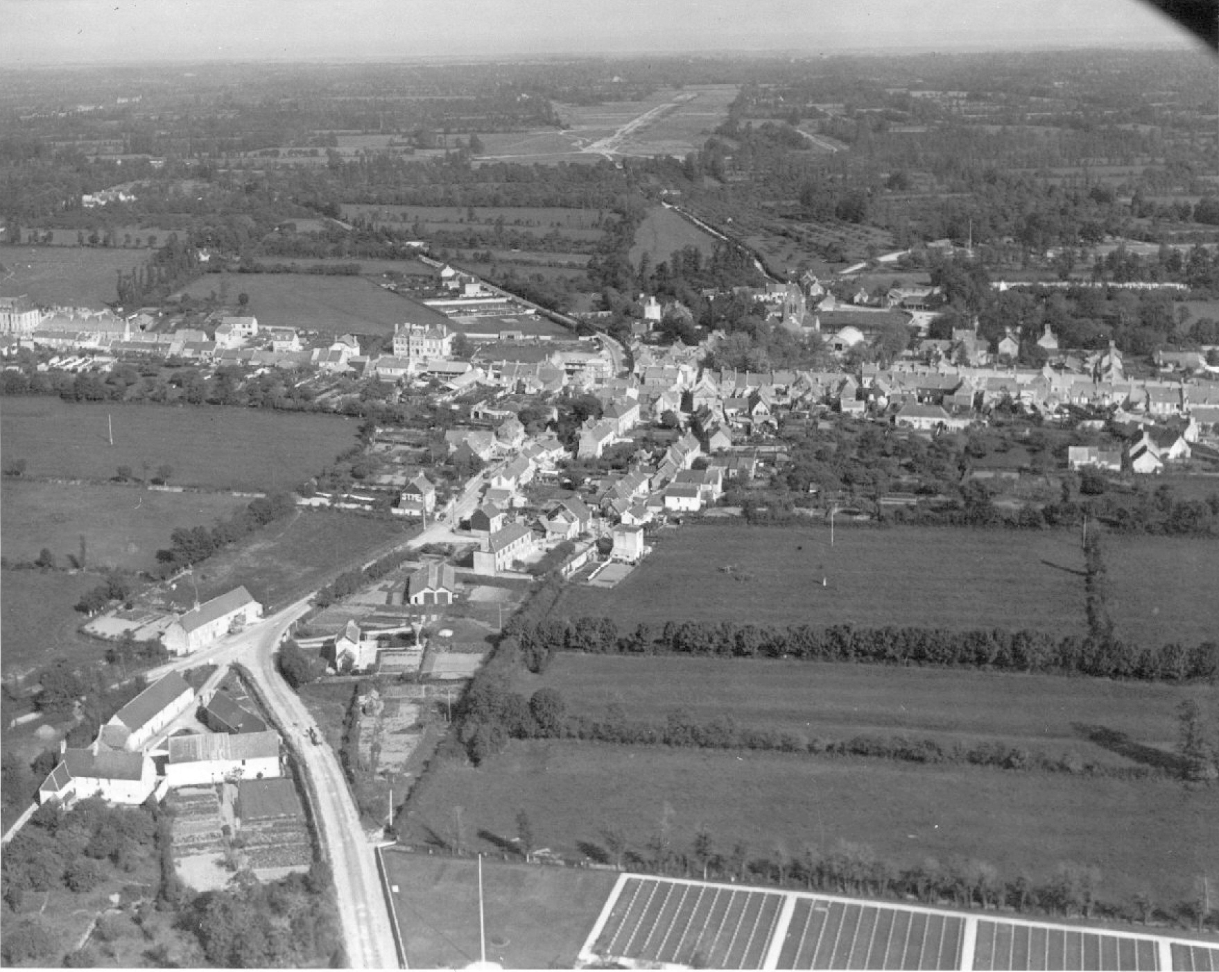 Ste Mere Eglise, Normandy, June 1944